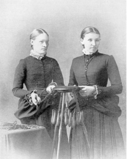 Two girls from Våmhus, Sweden in the 19th century, with some of the equipment they used to braid and make hairwork jewelry